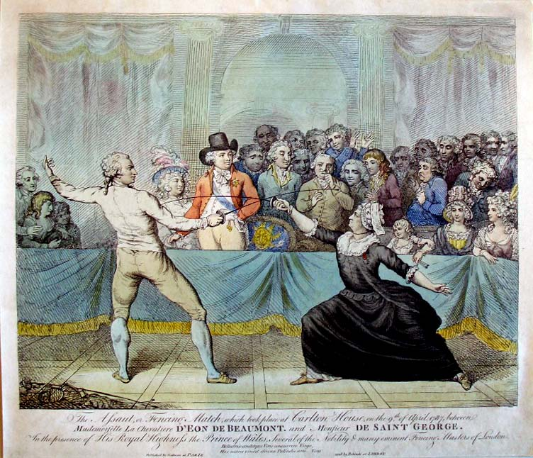 Stipple engraving with aquatint. Full title: "The Assaut, or Fencing Match, which took place at Carlton House on the 9th of April 1787, between Mademoiselle La chevalière D'EON DE BEAUMONT and Monsieur DE SAINT GEORGE.", a mockery of French knight chevalier d'Eon (Charles de Beaumont, chevalier d'Éon) who was said to be a woman in disguise.